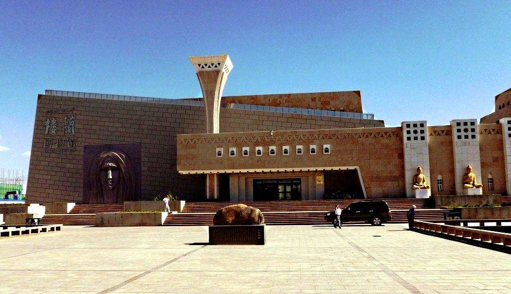 This museum had just opened before we visited Charklik (Ruoqiang) in June, 2011